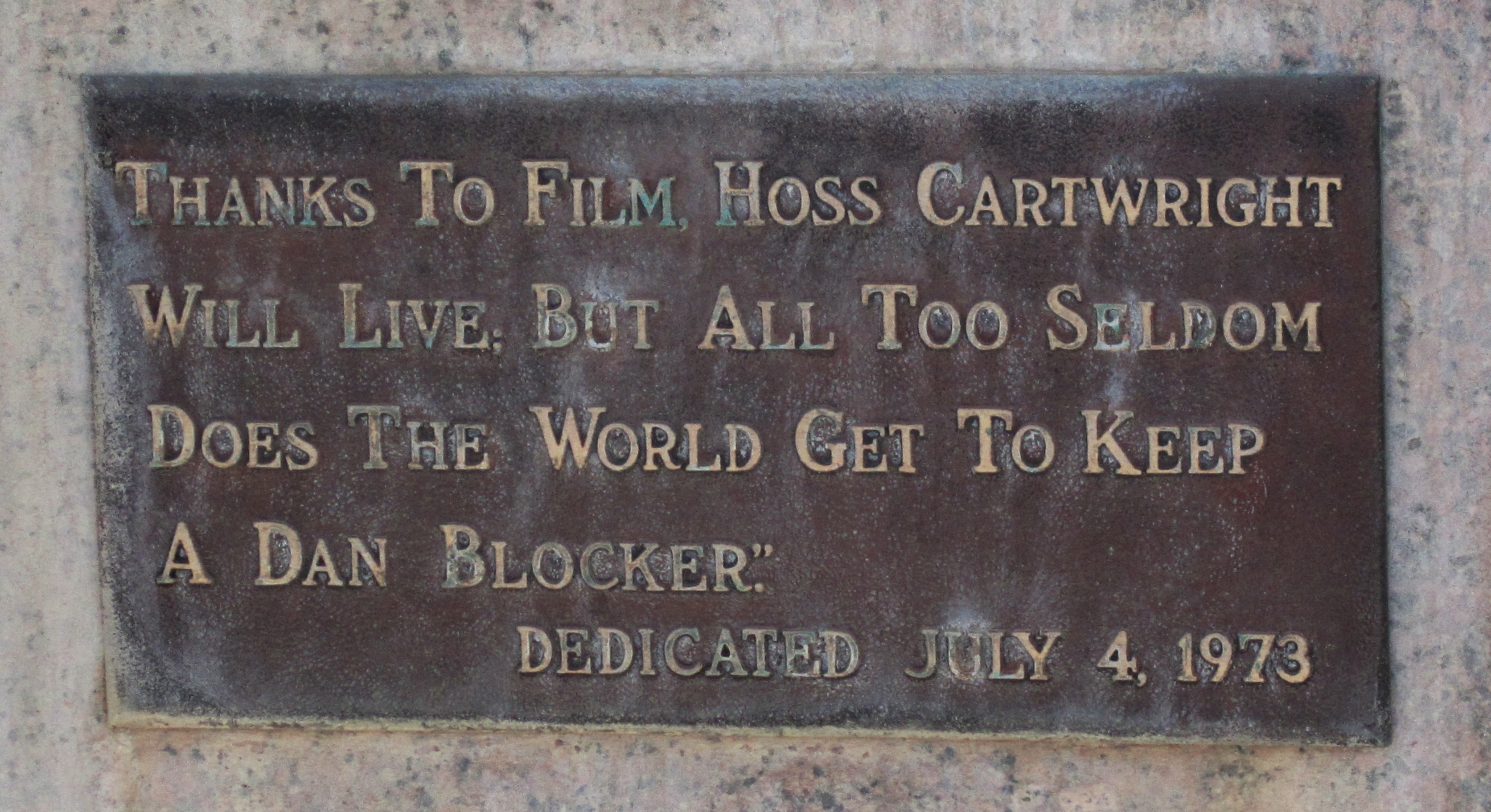 I took this photo with Canon camera in O'Donnell, TX.